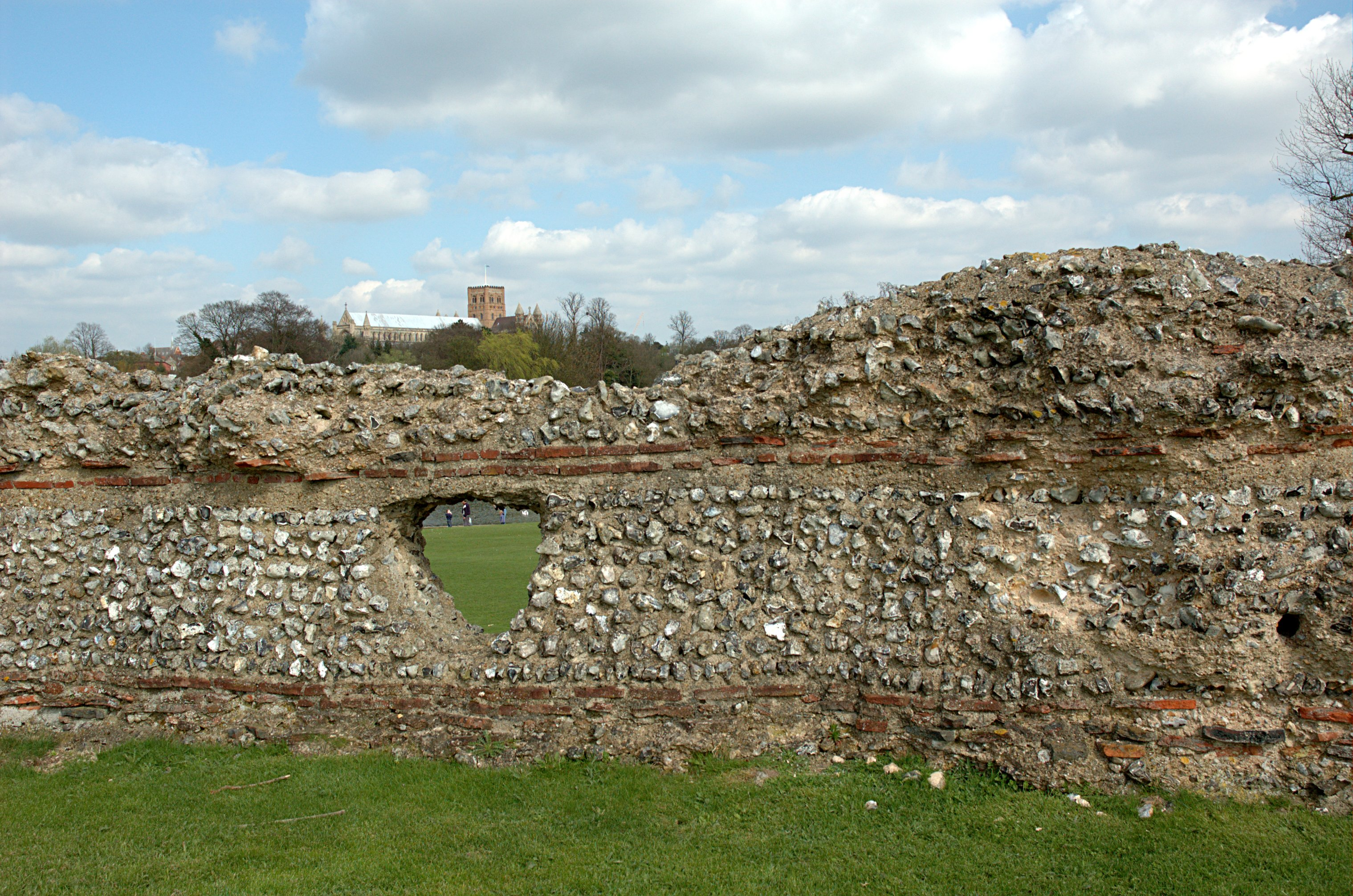 Remains of the northern city wall of Verulamium, Hertfordshire. A small fragment known as "St. Germain's Block". The cathedral is visible in the background.